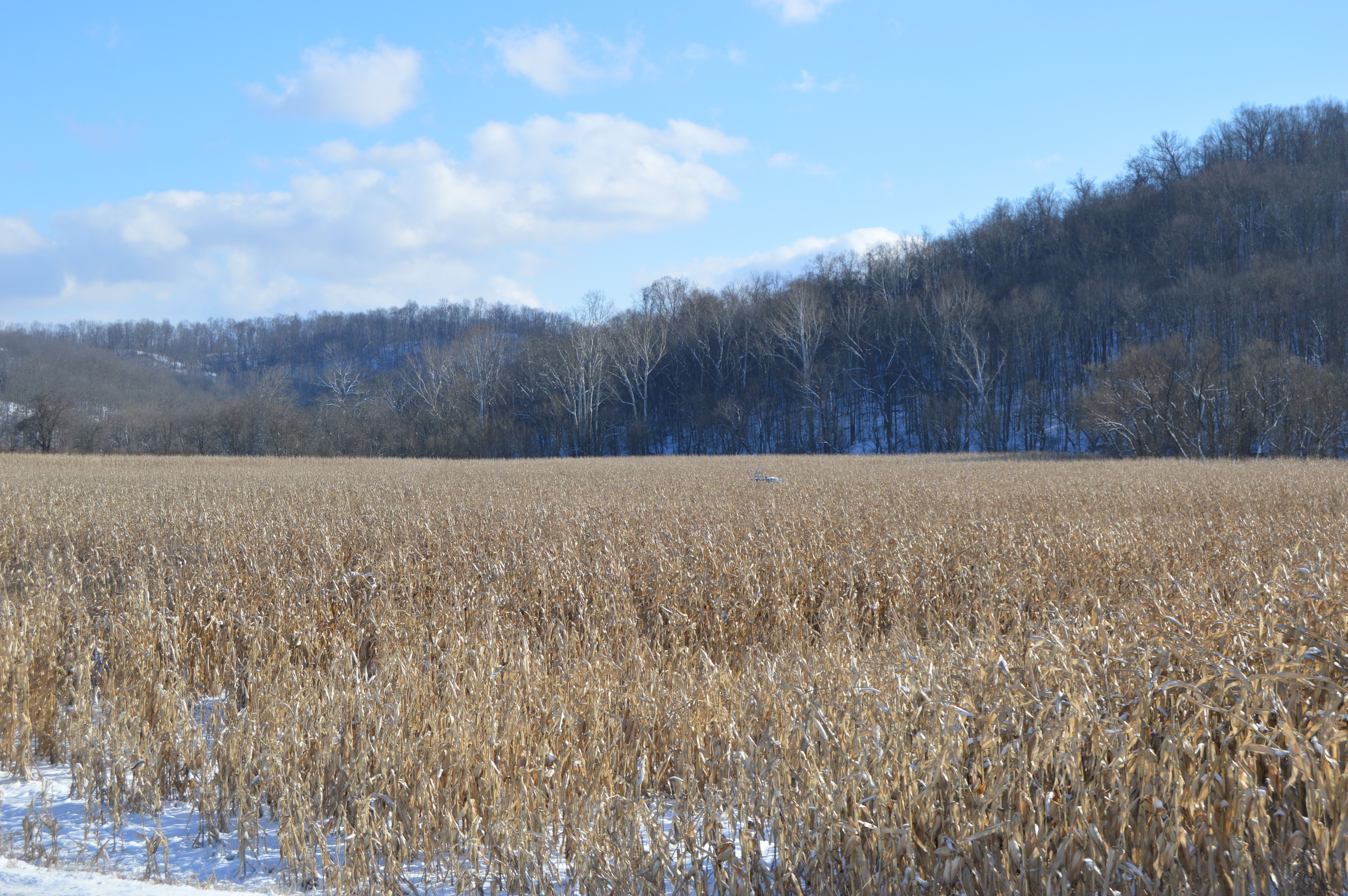 A very late cornfield on State Route 550, west of Amesville, in Ames Township, Athens County, Ohio, United States.